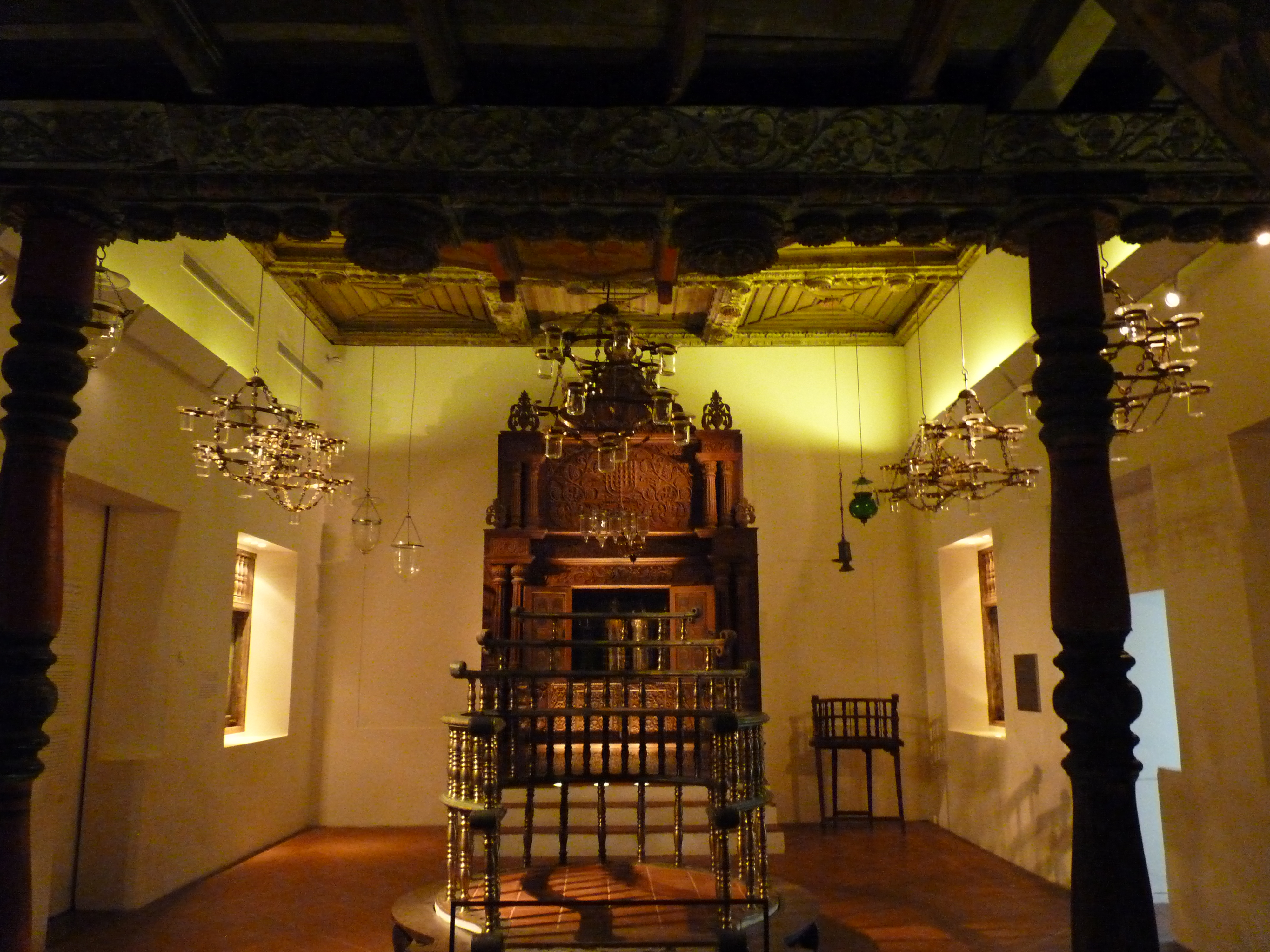 Category:Israel Museum, Jerusalem